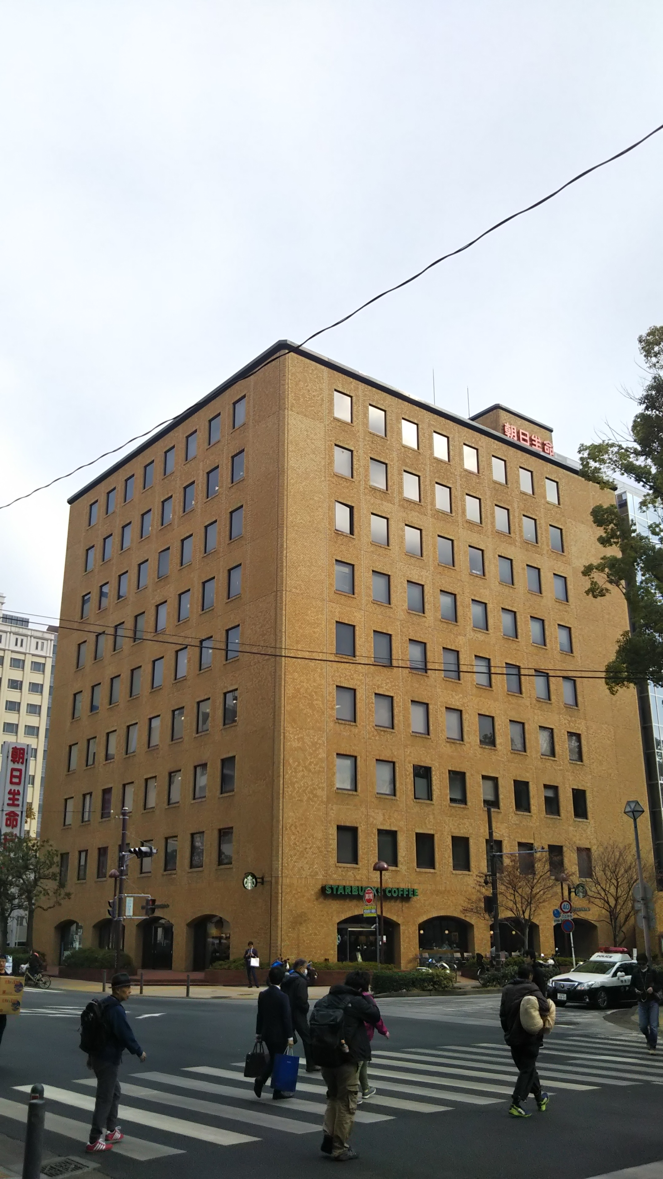 Asahi Seimei Yokohama Building, Nihon-ōdōri, Naka-ku, Yokohama. It hosts the Yokohama Branch of the Taipei Economic and Cultural Representative Office in Japan.